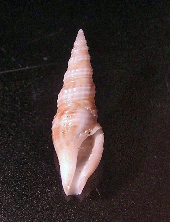 Cymatosyrinx parciplicata G. B. Sowerby III, 1915, a sea snail from the family Drilliidae; Philippines Category:Drilliidae